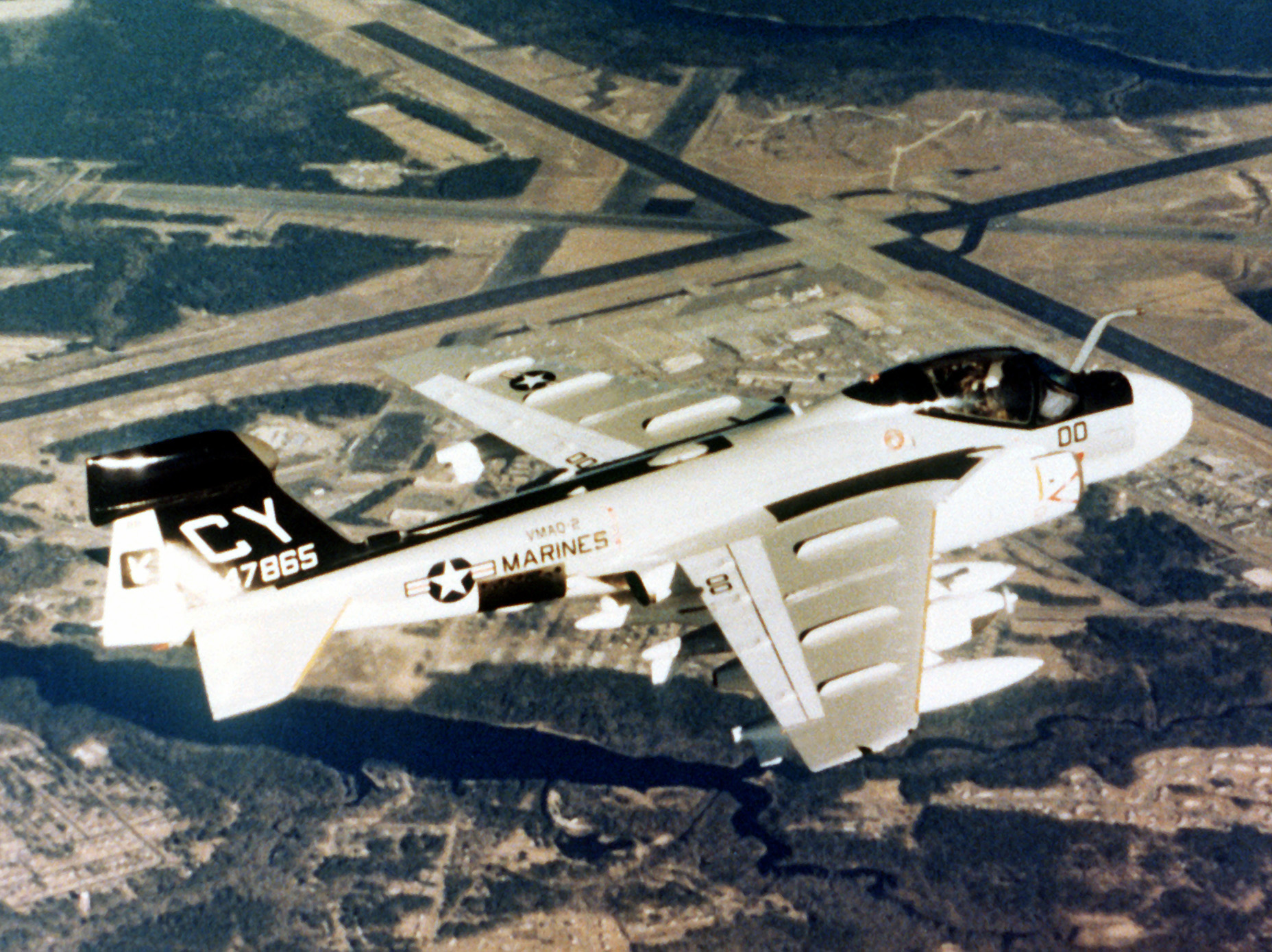 A U.S. Marine Corps Grumman EA-6A Intruder (BuNo 147865) from Marine electronic countermeasures squadron VMAQ-2 Playboys flying over Marine Corps Air Station Cherry Point, North Carolina (USA), on 1 December 1978. The EA-6A 147865 was retired to the MASDC as 5A0030 on 24 March 1980. 147865 came out of storage in January 1983 and flew with Naval Reserve Squadron VAQ-33 until returned for display at MCAS Cherry Point on 15 April 1992.